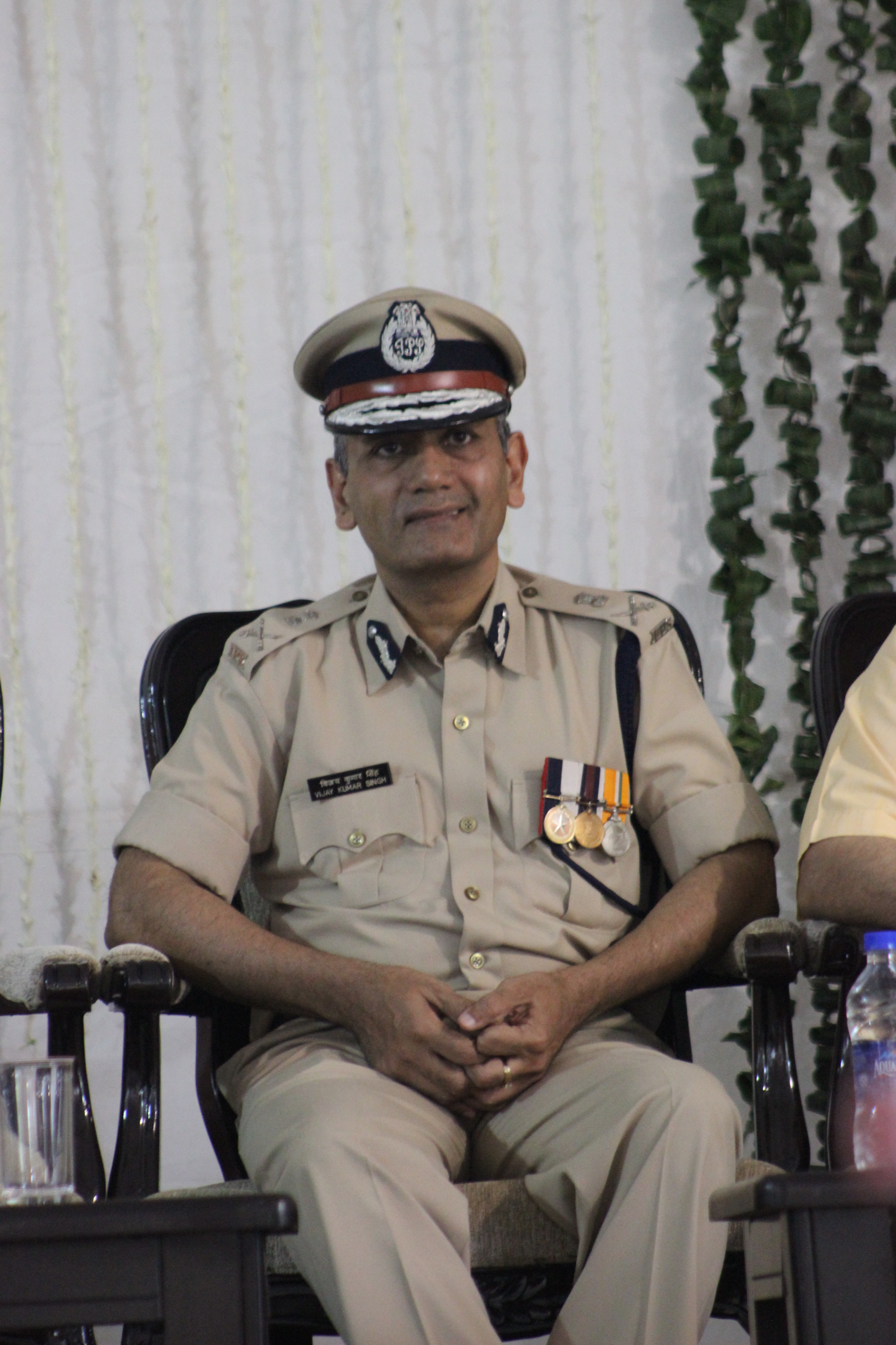 First Chanakya and Chatrasal Price for Special services of Police in Madhya Pradesh Year 2016